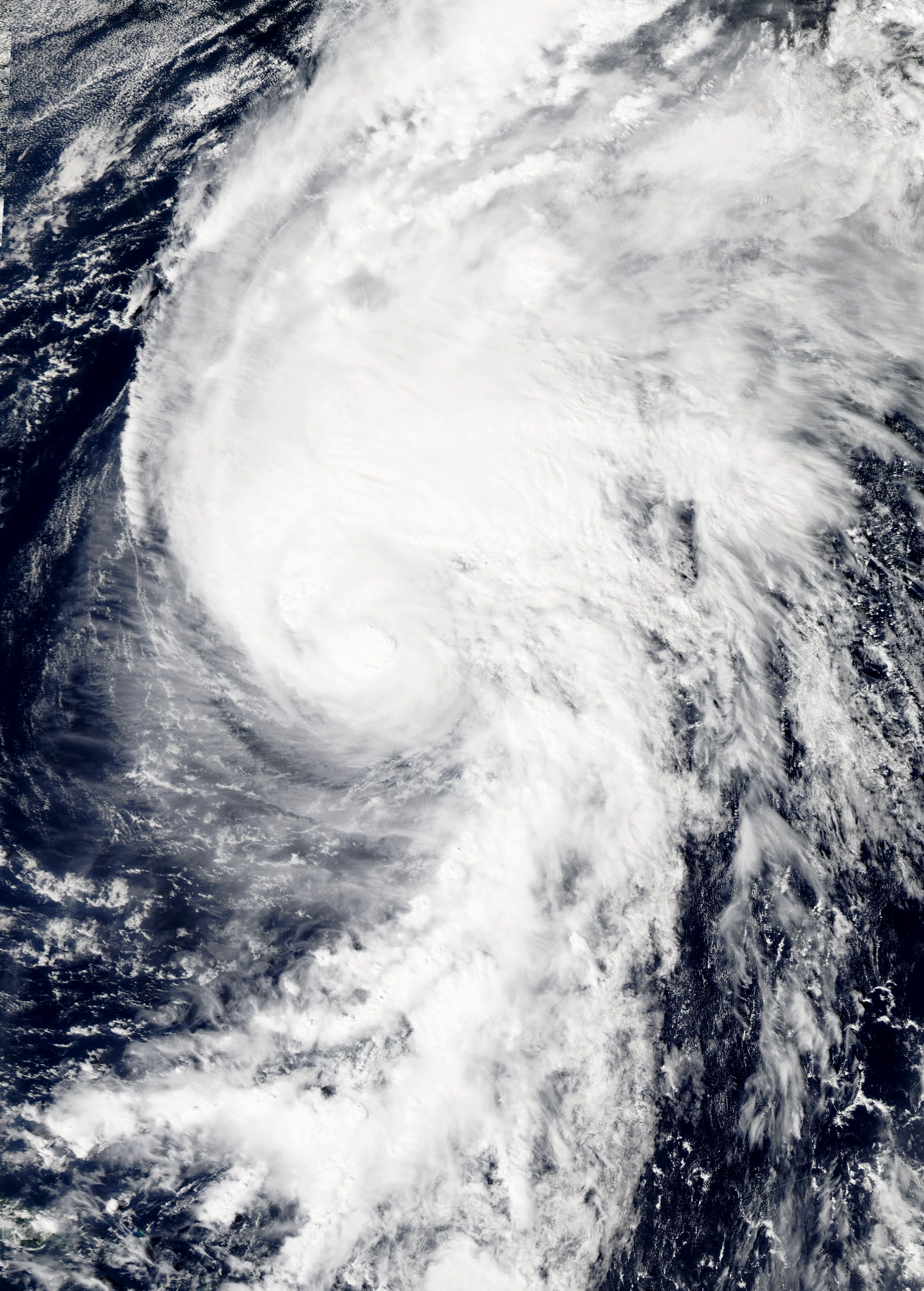 Hurricane Rafael near peak intensity on October 16